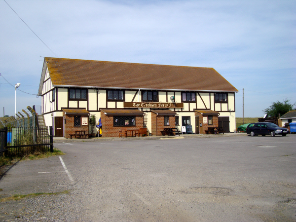 Creeksea Ferry public house.